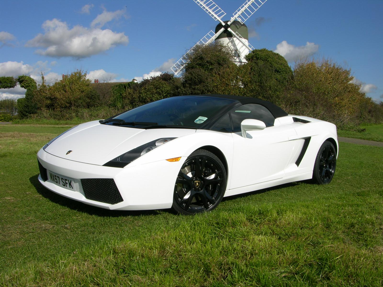 Lamborghini Gallardo Spyder. Good Design Award 2007.